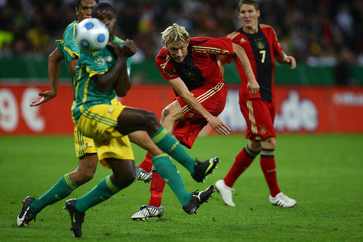 SEPTEMBER 5, 2009 - Football : Simon Rolfes of Germany in action during the international friendly match between Germany and South Africa at BayArena on September 5, 2009 in Leverkusen, Germany. (Photo by Tsutomu Takasu)